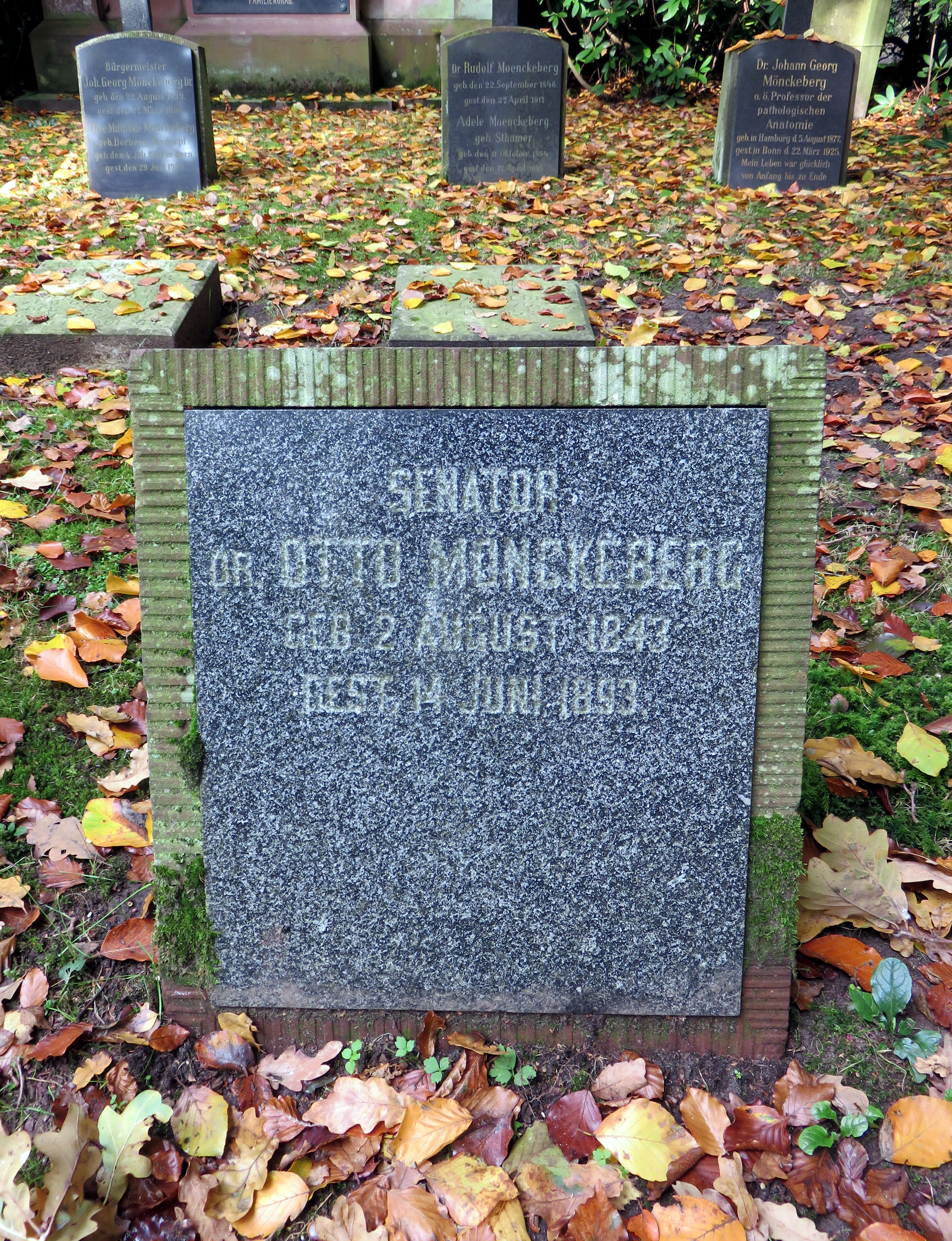 Gravestone for Hamburg judge Otto Wilhelm Mönckeberg, grave area of Mönckeberg family, Hamburg Cemetery Ohlsdorf.